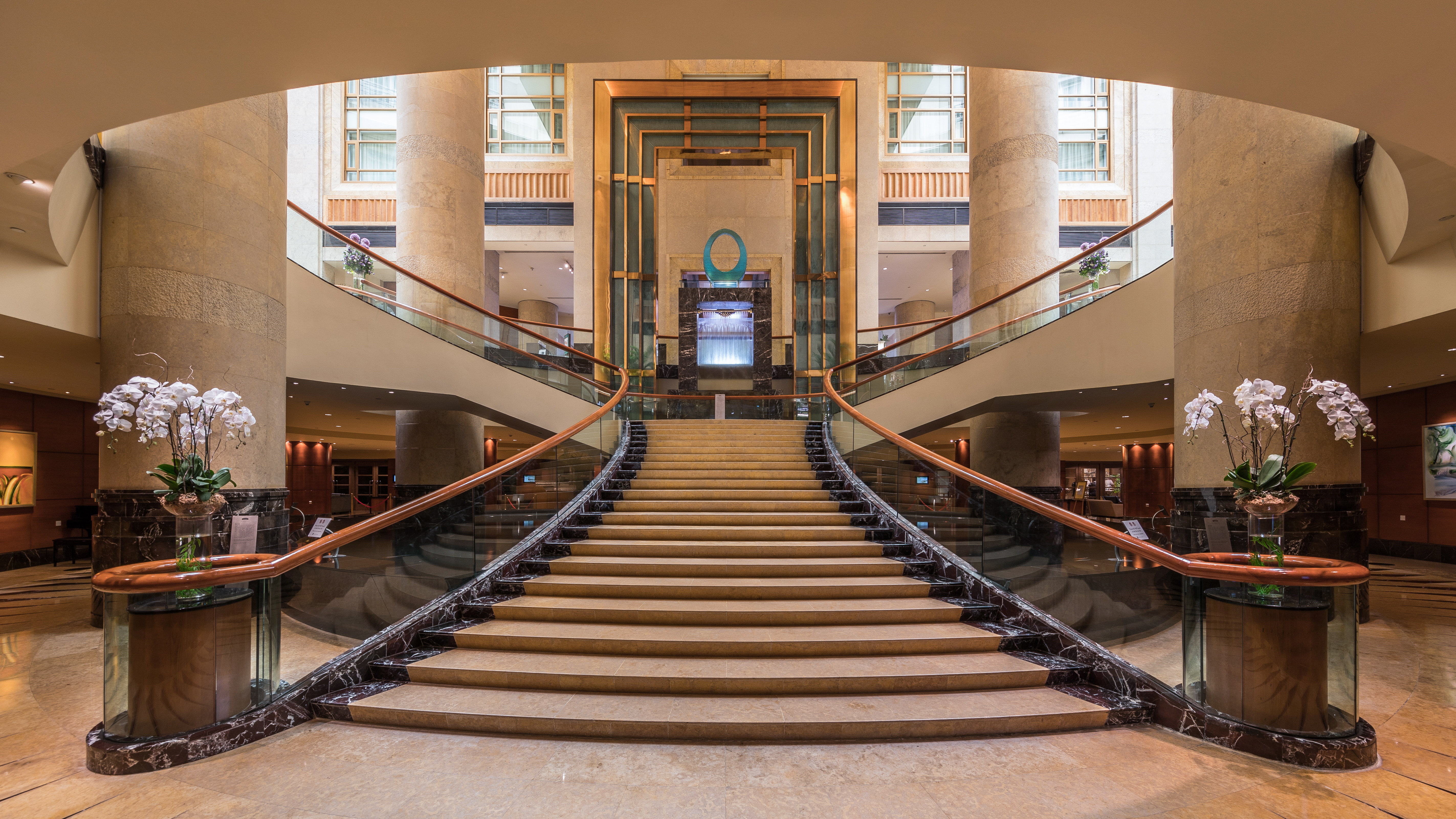 Symmetric view of the staircase at The Fullerton Hotel, Singapore, with handrails and flower decorations